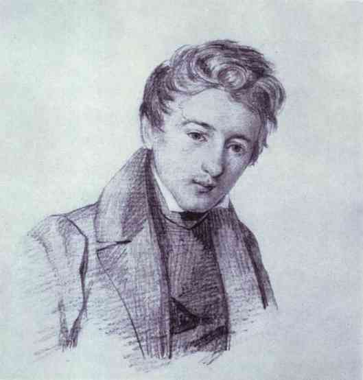 Sketch of Mikhail Lebedev by Nikolai Ramazanov (1817-1867)